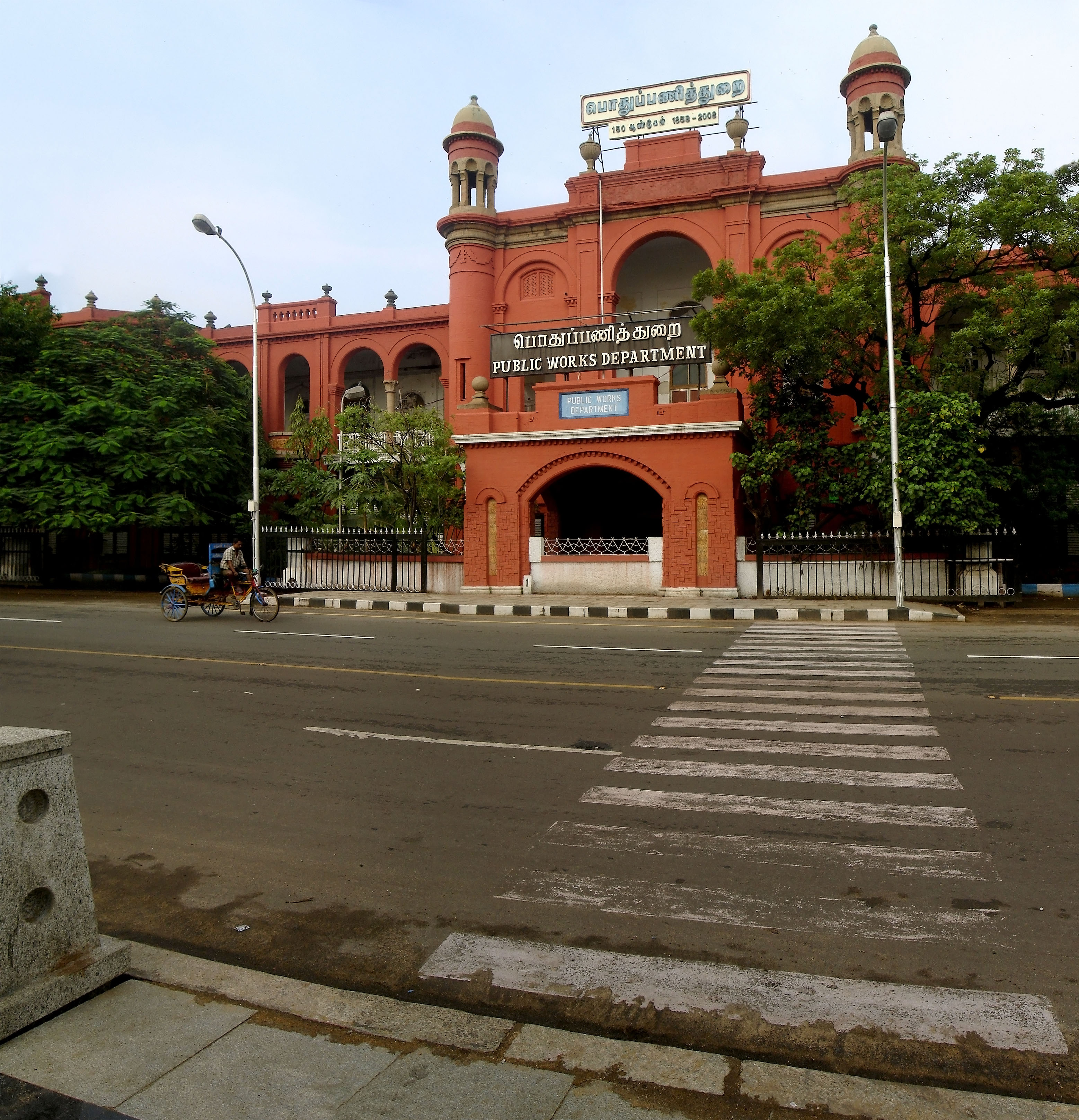 The facade of the Public Works Department building on Marina Beach, Chennai